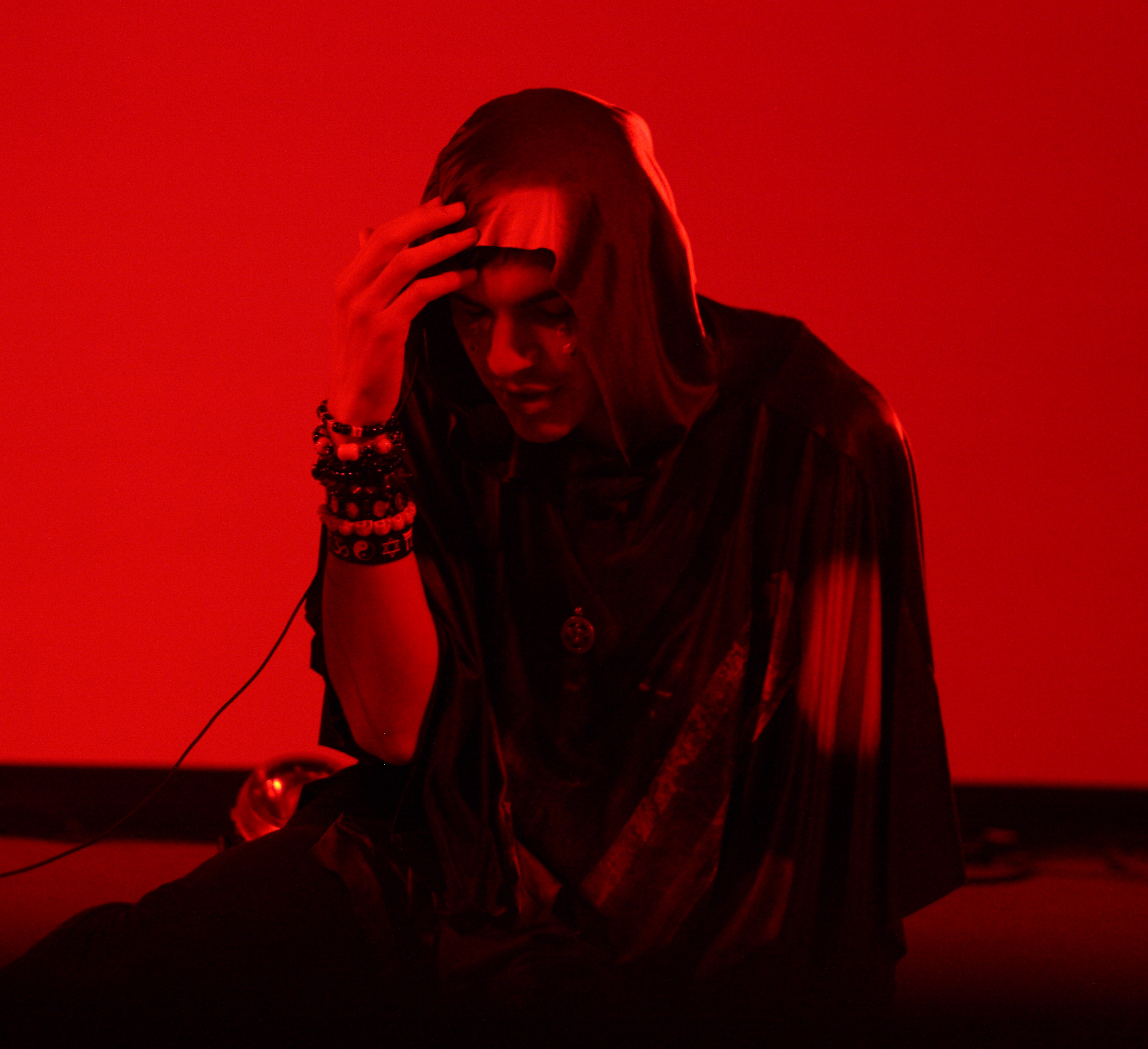 Mr.Kitty (Infest 2014)